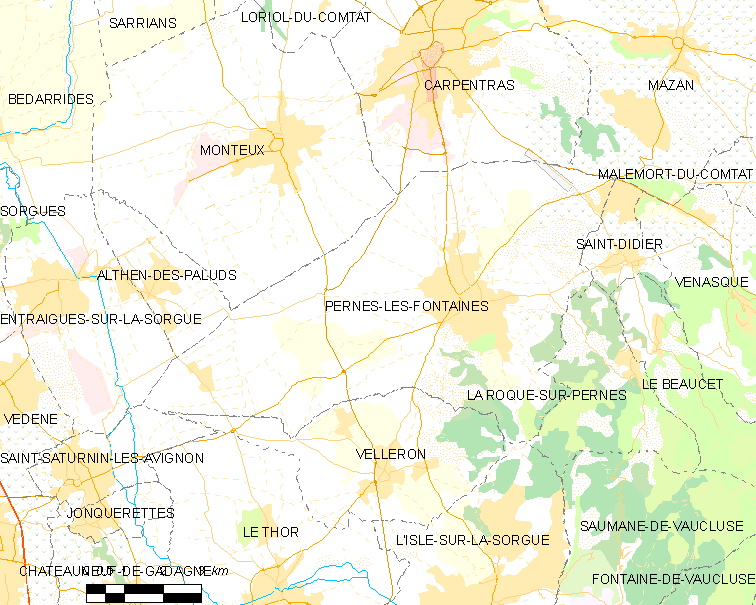 Map of French municipality Pernes-les-Fontaines